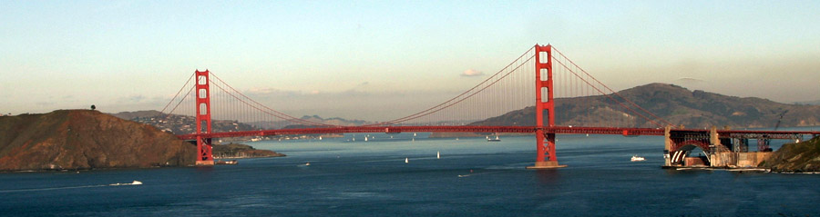 Golden Gate Bridge panorama